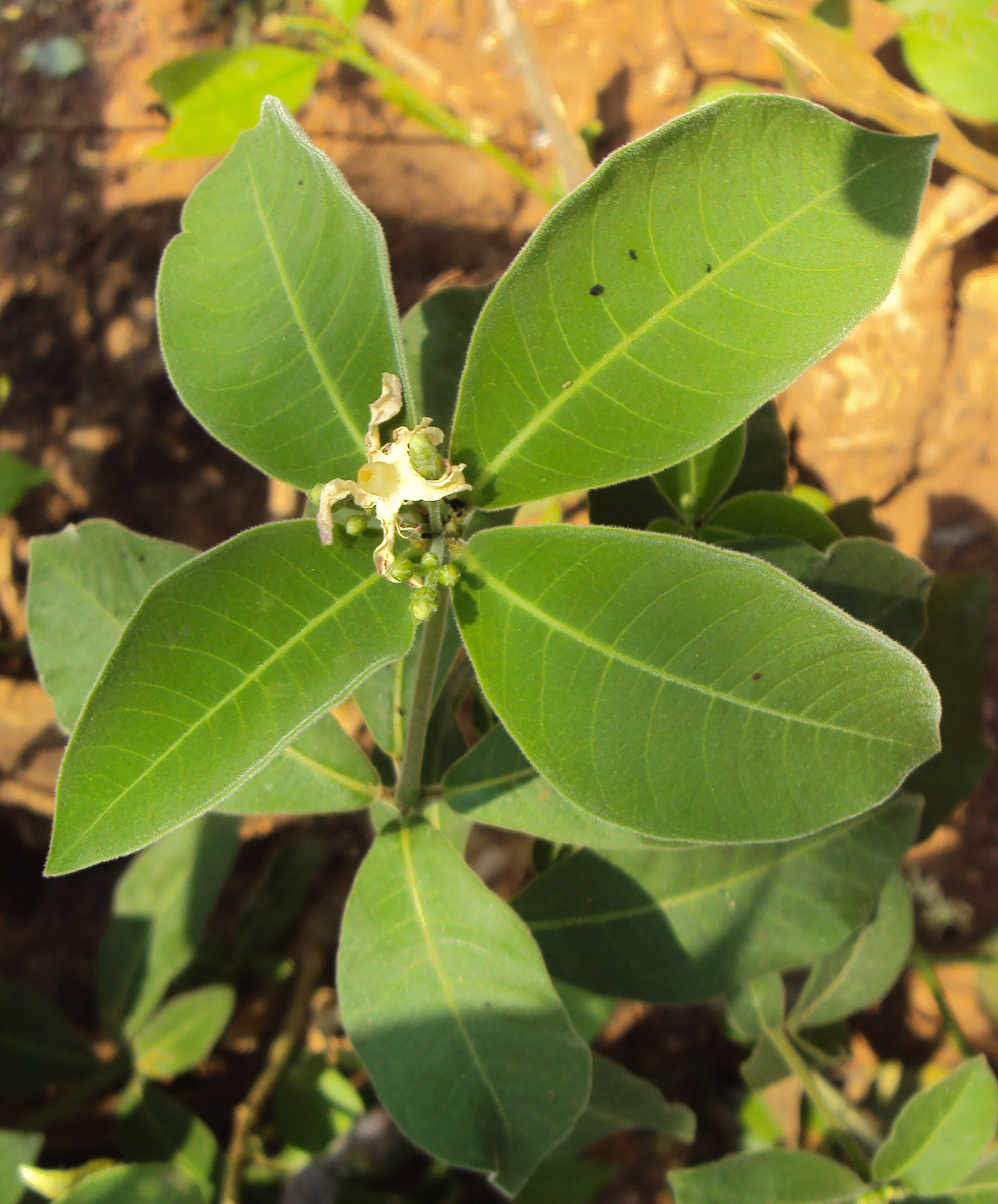 Rauvolfia tetraphylla